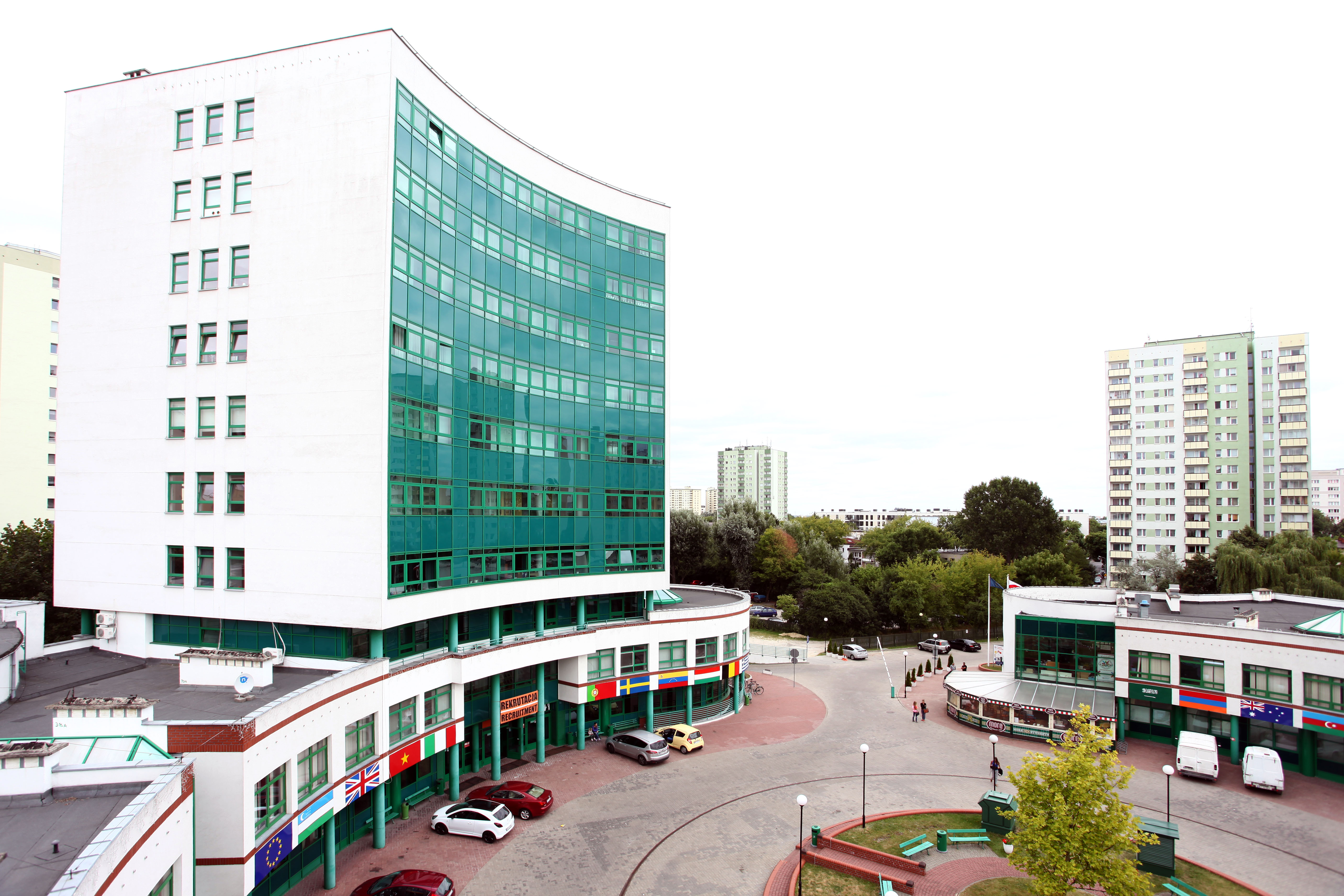 Kampus UŁa